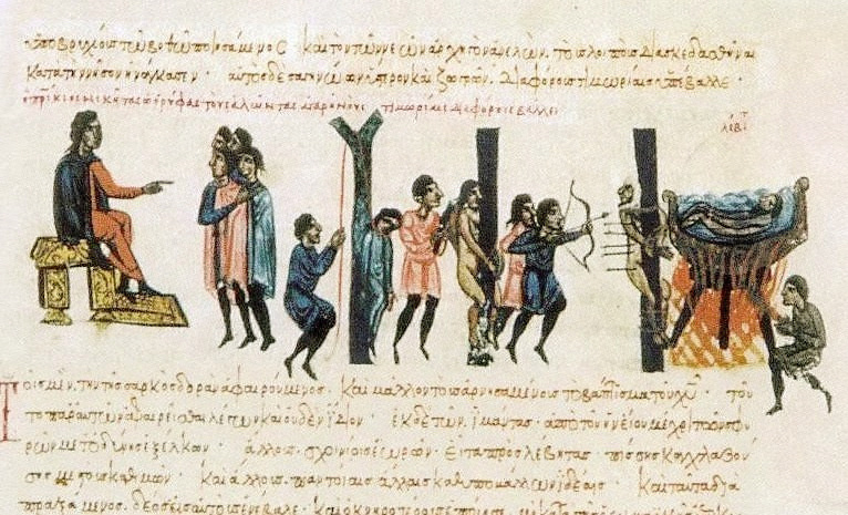 Niketas Oryphas punishes the Saracens of Crete